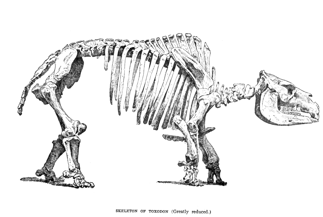 Skeleton of Toxodon